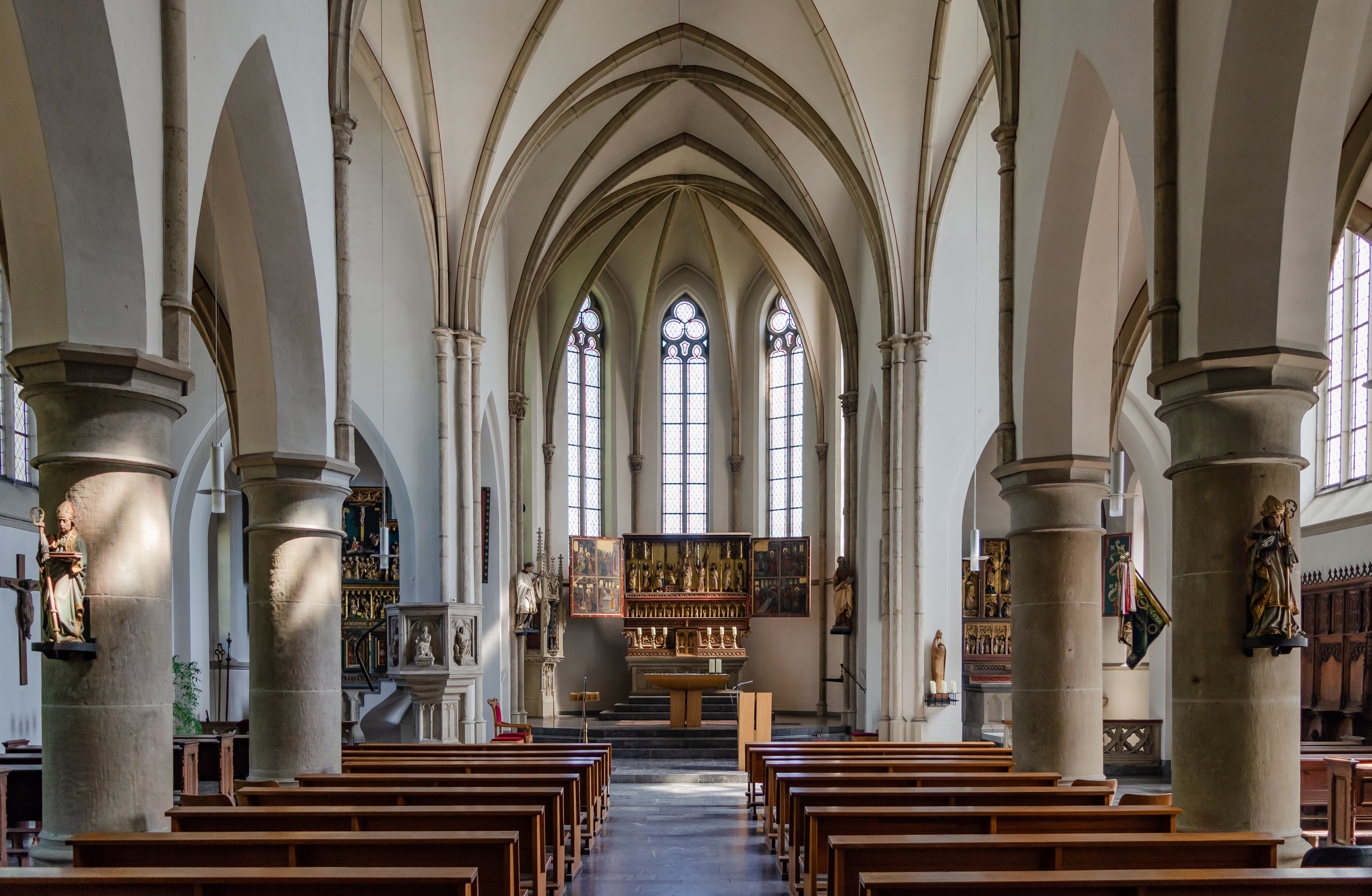 Krefeld (North Rhine-Westphalia, Germany) – district Uerdingen – former village Hohenbudberg – Catholic Saint Matthew's Church – interior view through the central nave